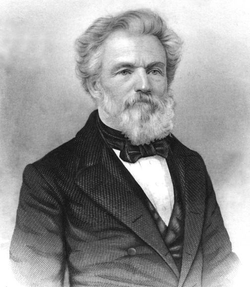 John Anthony Quitman (1798-1858)